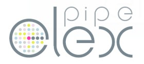 Elex Pipe's logo